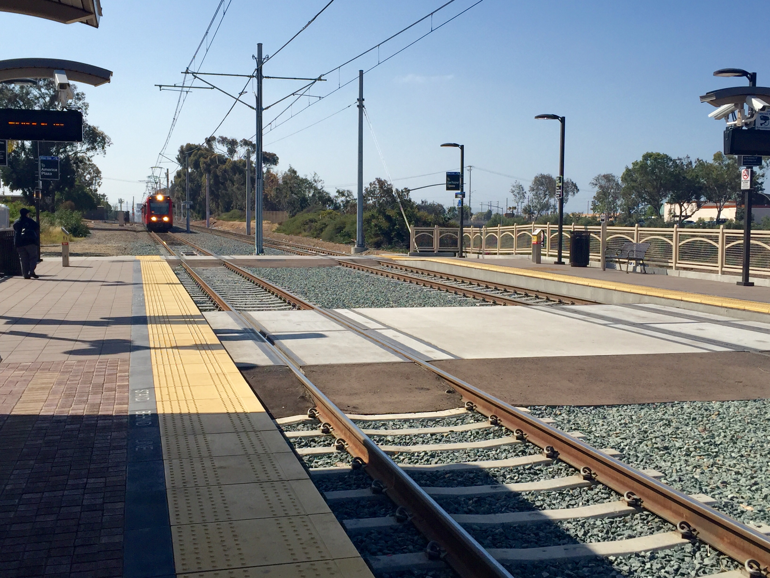 Blue Line trolley arriving at E Street Station of San Diego Trolley.